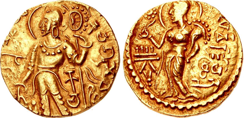 Kachagupta of the Gupta Empire 335 CE. Chakradhvaja type. Kachagupta, nimbate, standing left, sacrificing at altar and holding filleted chakradhvaja (wheel-standard); kacha in Brahmi below left arm / Lakshmi standing left, holding flower and cornucopia; tamgha to left